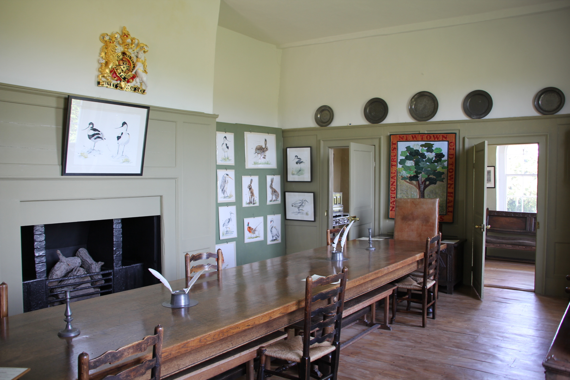 Interior of Newtown Old Town Hall, Newtown. Isle of Wight